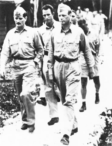 Two aces walk with another famous aviator. Charles Lindbergh, right, visited the Pacific combat areas several times to help Army, Navy, and Marine Corps squadrons get the most from the respective mounts. Here, the pioneer transatlantic flier visits with now-Maj Joe Foss, left, and now-Maj Marion Carl, center, in May 1944.